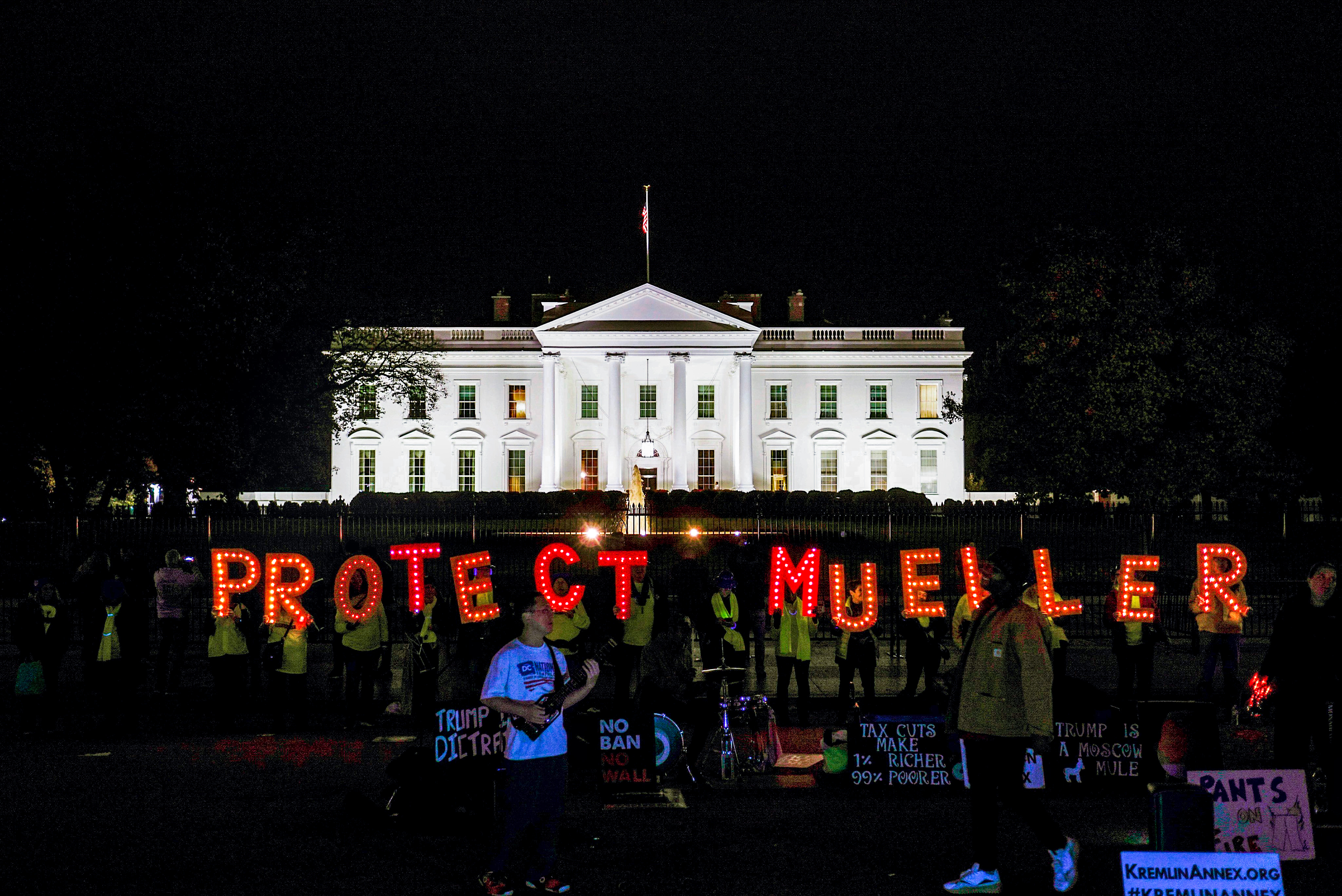 Nobody Is Above the Law protesters in front of the White House.